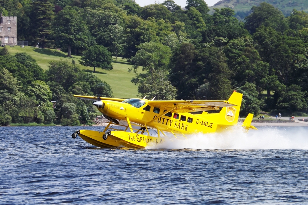 G-MDJE Cessna 208 Caravan I Loch Lomond Seaplanes starting take-off run on Loch Lomond